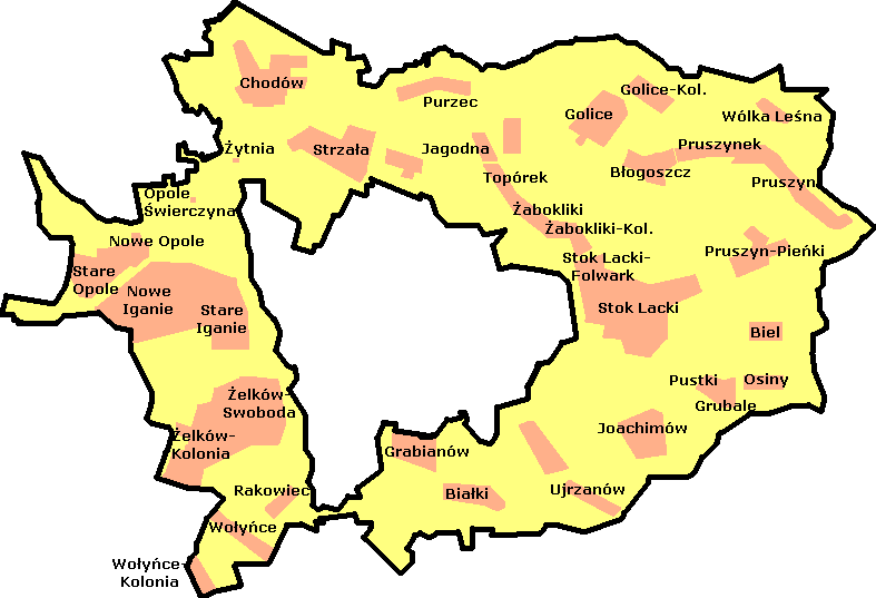 Siedlce Municipality